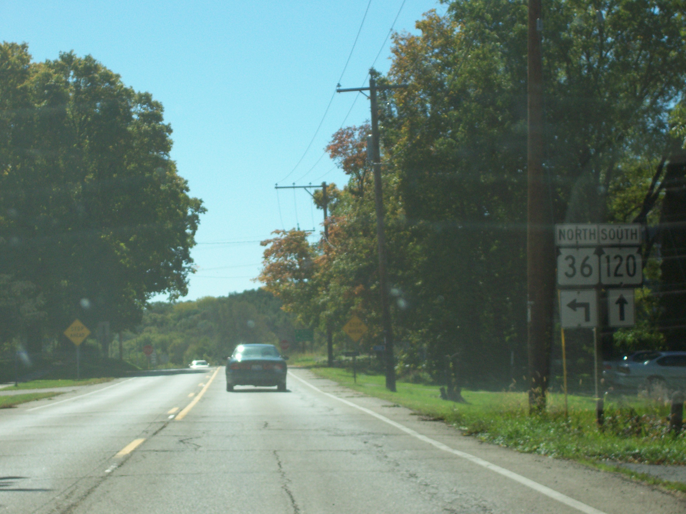 Looking south on Highway 120 (Wisconsin) at Springfield, Walworth County, Wisconsin, north of its intersection with Highway 36 (Wisconsin). This image was taken on October 1, 2006 by User:Royalbroil. Category:Images of Wisconsin highways